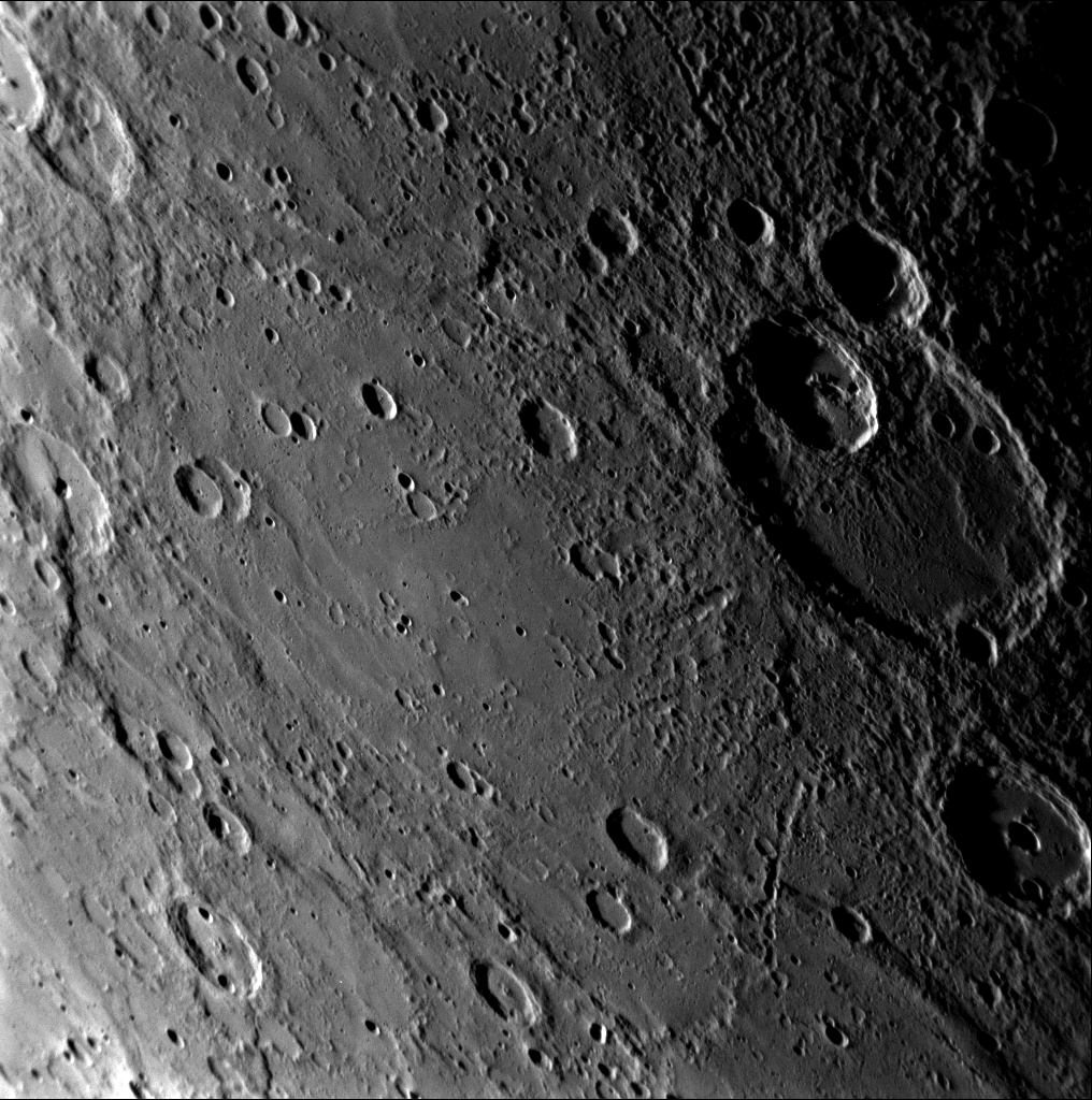 As the MESSENGER spacecraft approached Mercury on January 14, 2008, the Narrow Angle Camera (NAC) of the Mercury Dual Imaging System (MDIS) snapped this image of the crater Matisse. Named for the French artist Henri Matisse, Matisse crater was imaged during the Mariner 10 mission and is about 210 kilometers (130 miles) in diameter. Matisse crater is in the southern hemisphere and can be seen near the terminator of the planet (the line between the sunlit, day side and the dark, night side) in both the color and single-filter, black-and-white images released previously that show an overview of the entire incoming side of Mercury.